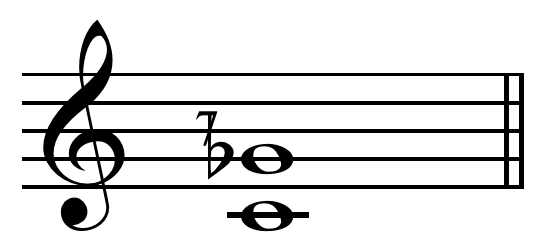 Lesser septimal tritone on C = G♭ (Ben Johnston's notation). 7:5 = 582.51 cents. Limit: 7-limit.